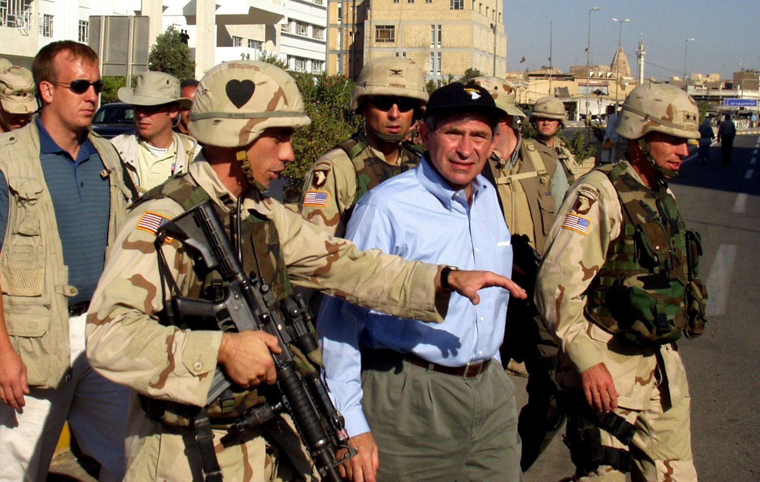 Deputy Secretary of Defense Paul Wolfowitz (center) is escorted by Army Gen. David H. Petraeus (right), commander, 101st Airborne Division, as they walk through the streets of Mosul, Iraq, on July 21, 2003. Wolfowitz talked to Iraqi citizens in the streets and met with the town council during his visit to Mosul. Wolfowitz is in Iraq to meet with the senior military and civilian leadership and deployed troops.